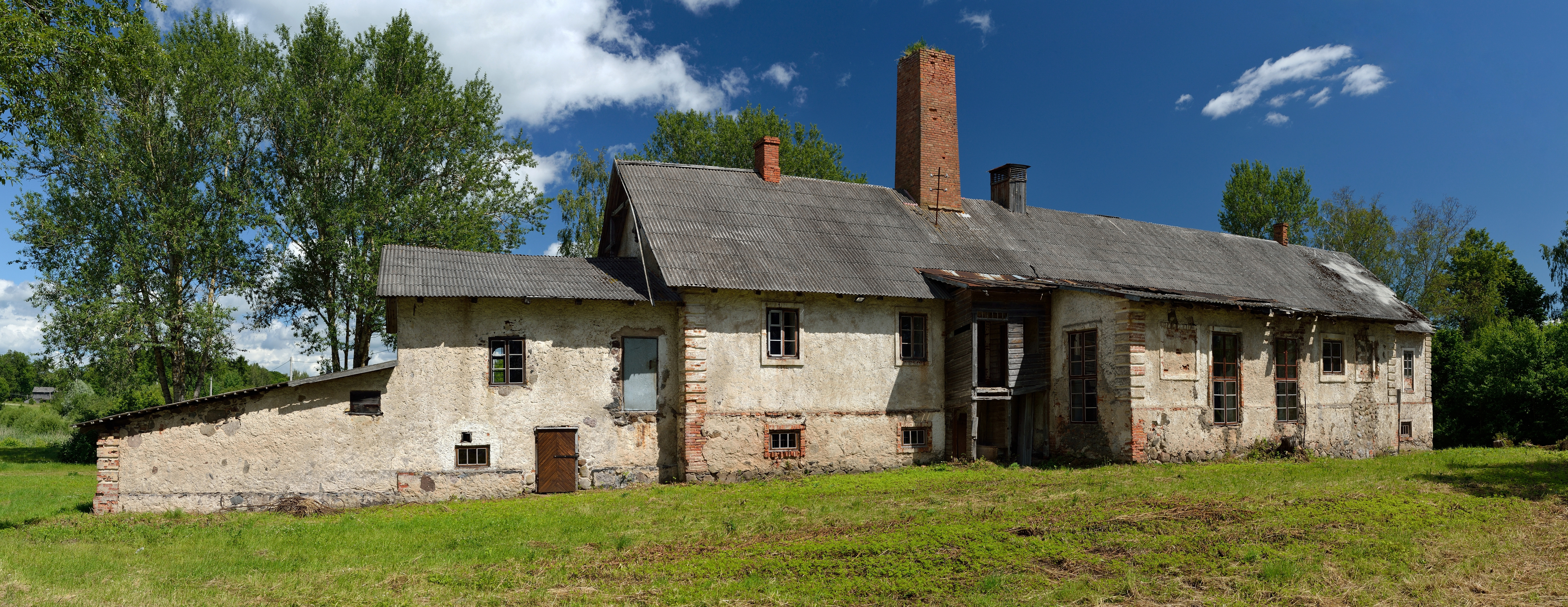 Aakre manor distillery